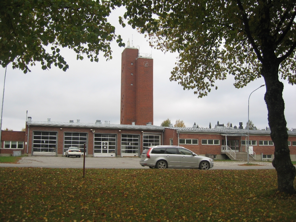 Joensuu old fire station